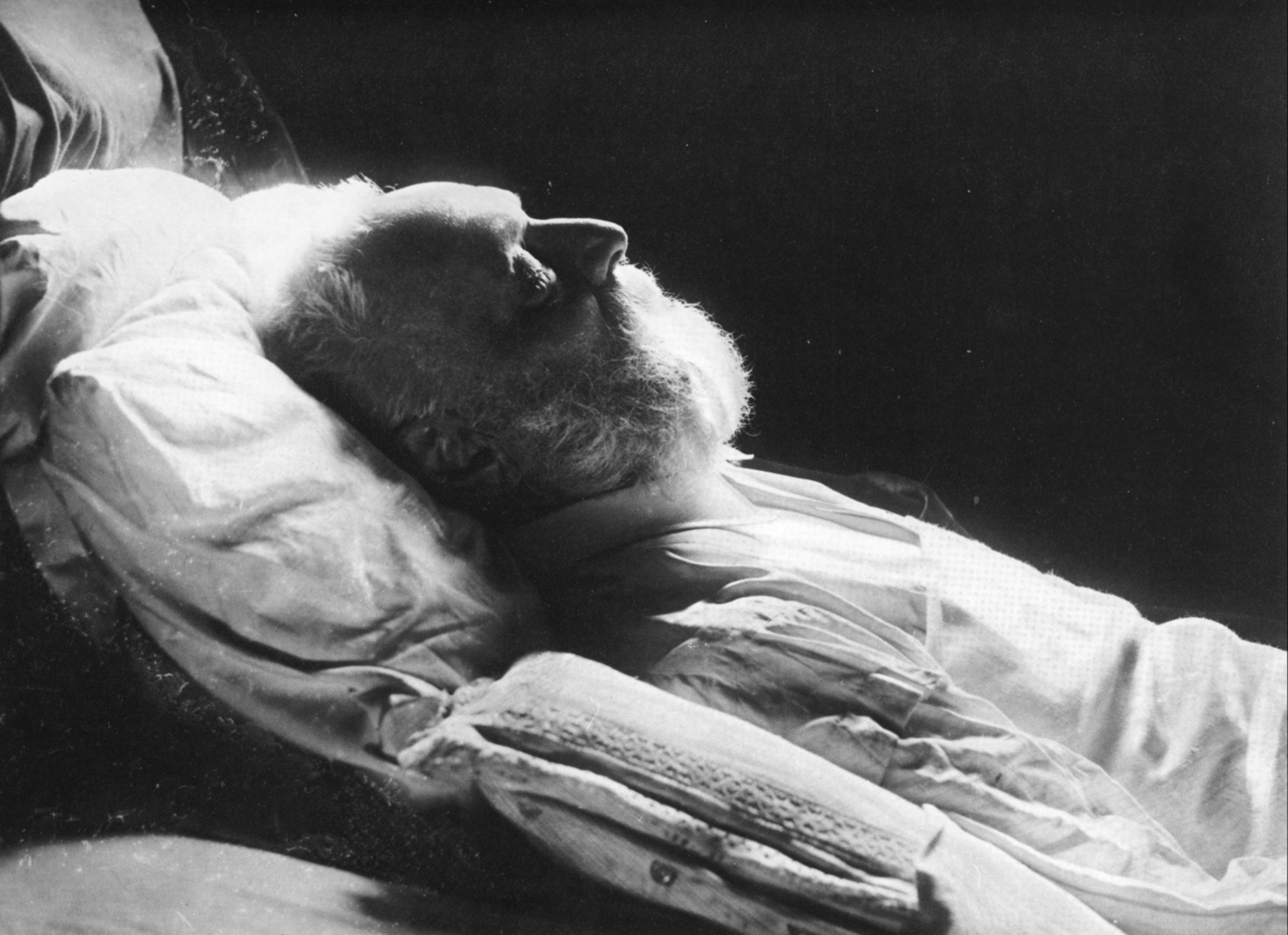 Photography of Victor Hugo on his death bed, by Félix Nadar